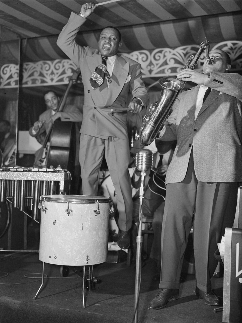 Lionel Hampton and Arnett Cobb, Aquarium, NYC, ca June 1946. Photograph by William P. Gottlieb.